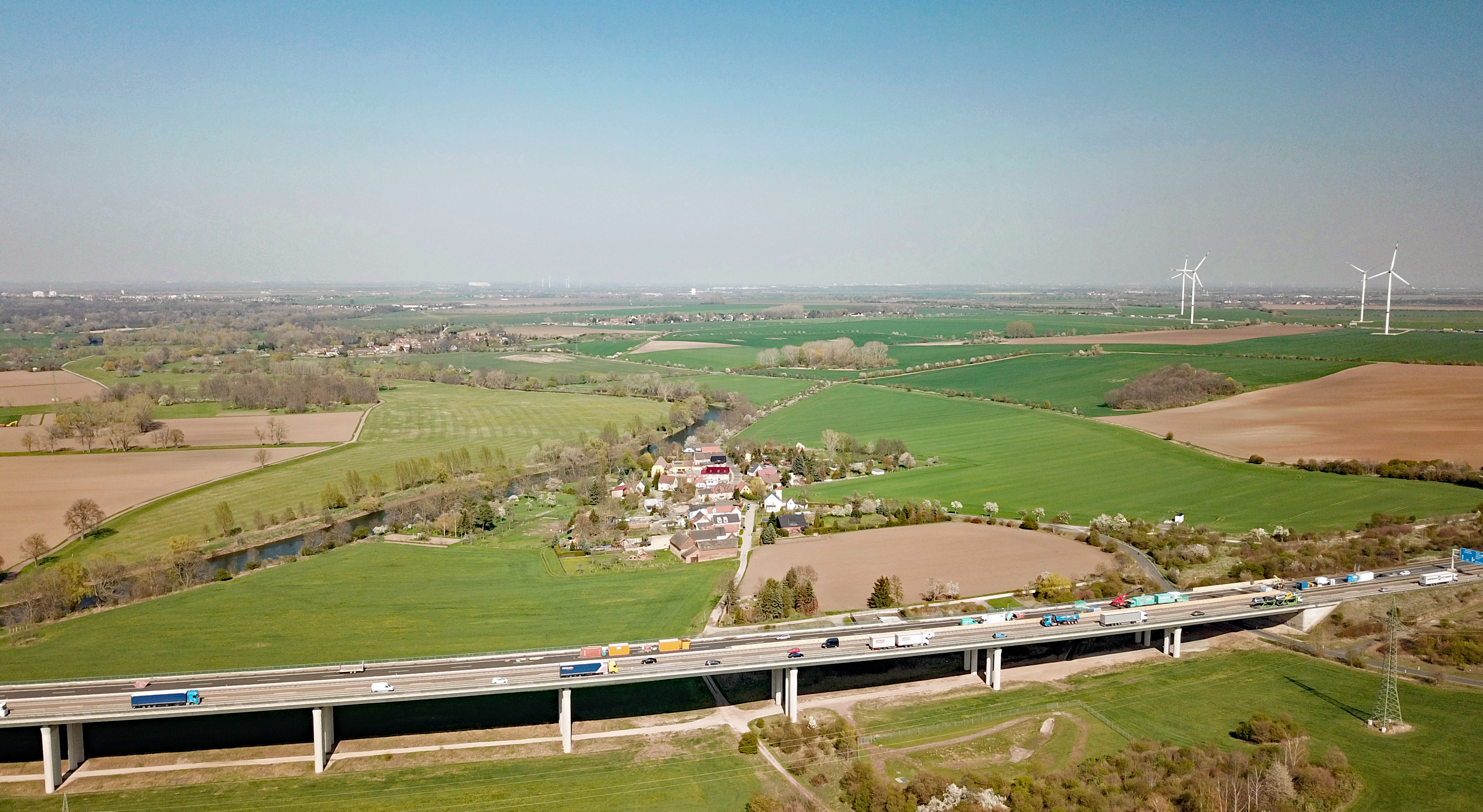 Oeglitzsch (Lützen, Saxony-Anhalt, Germany)